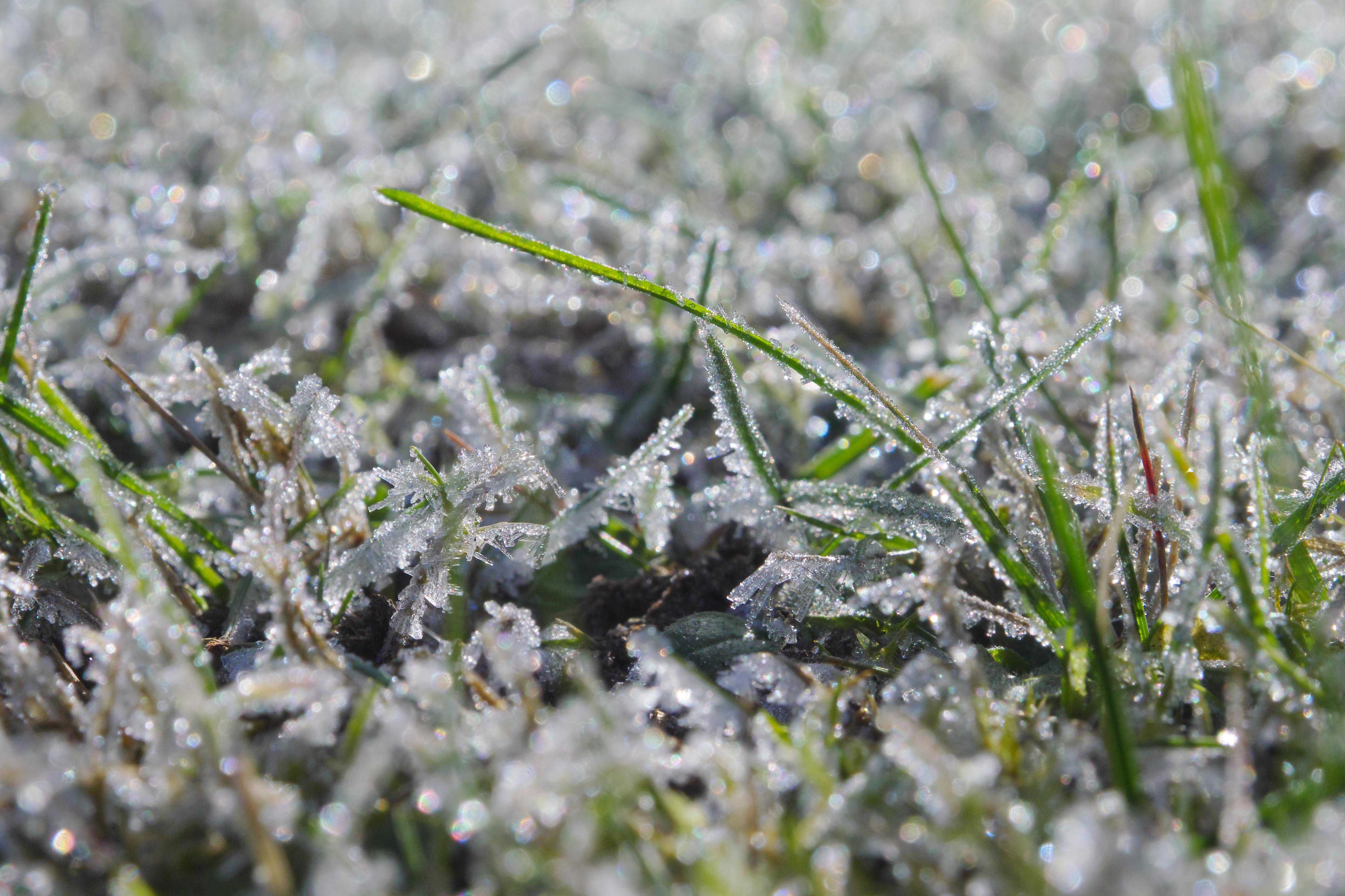 hoar frost on blades of grass